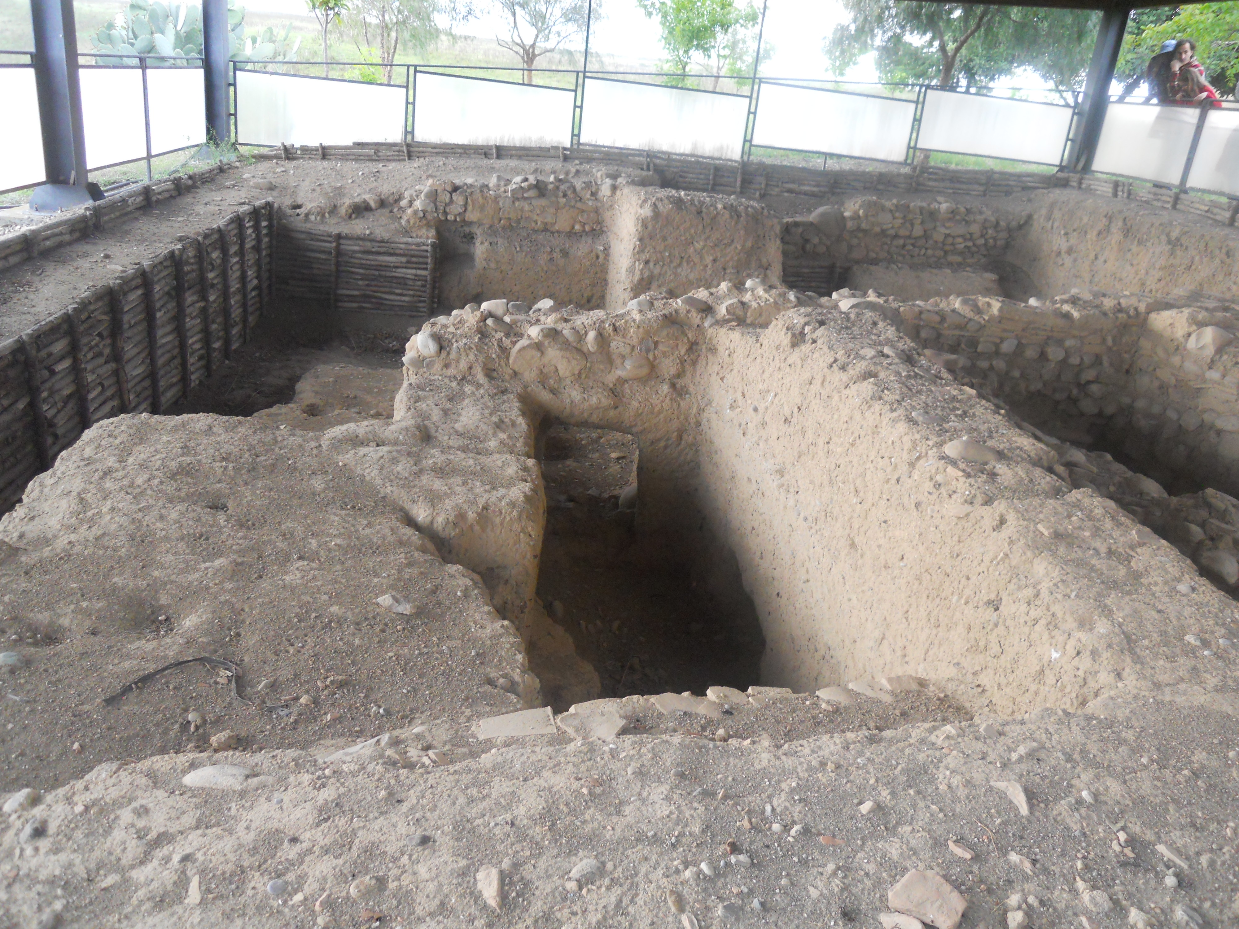 Herakleia and Siris archeological area, in the Museo nazionale della Siritide of Policoro (Italy)